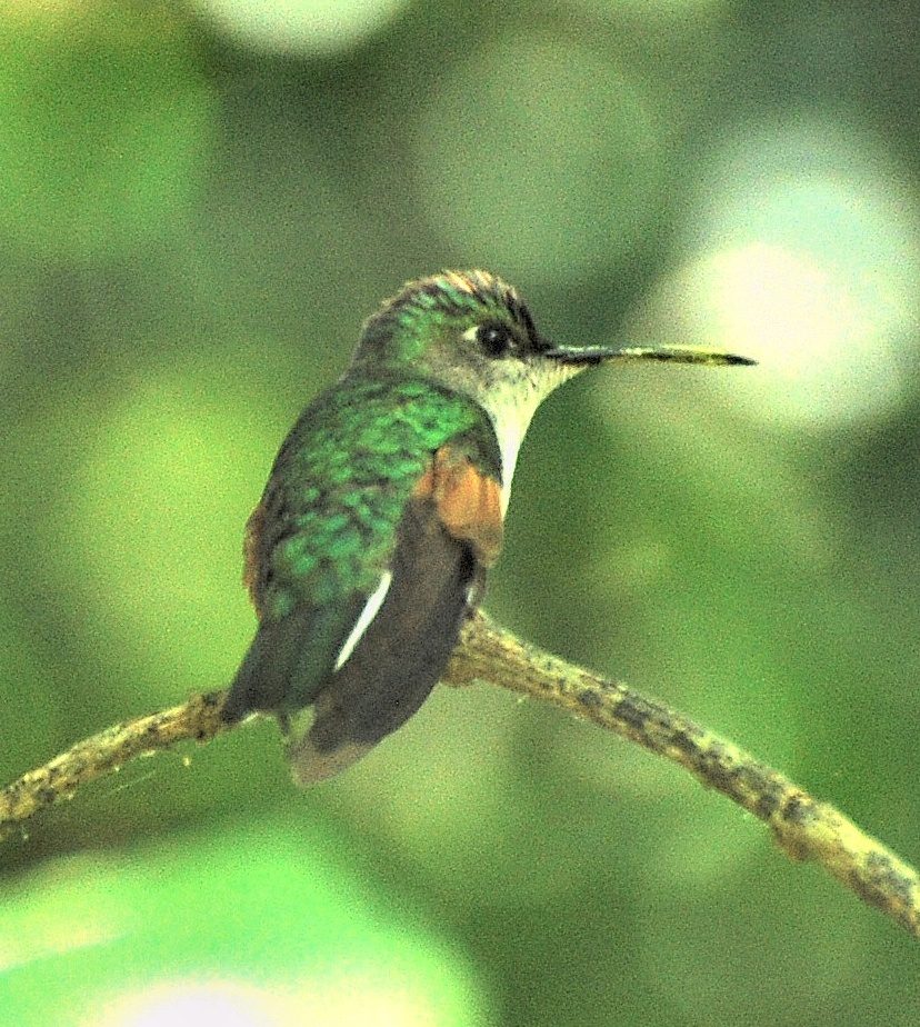 Blue-capped Hummingbird female or juvenile (Eupherusa cyanophrys) along Constancia Road, the trail above Rancho Dioon, Mexico.